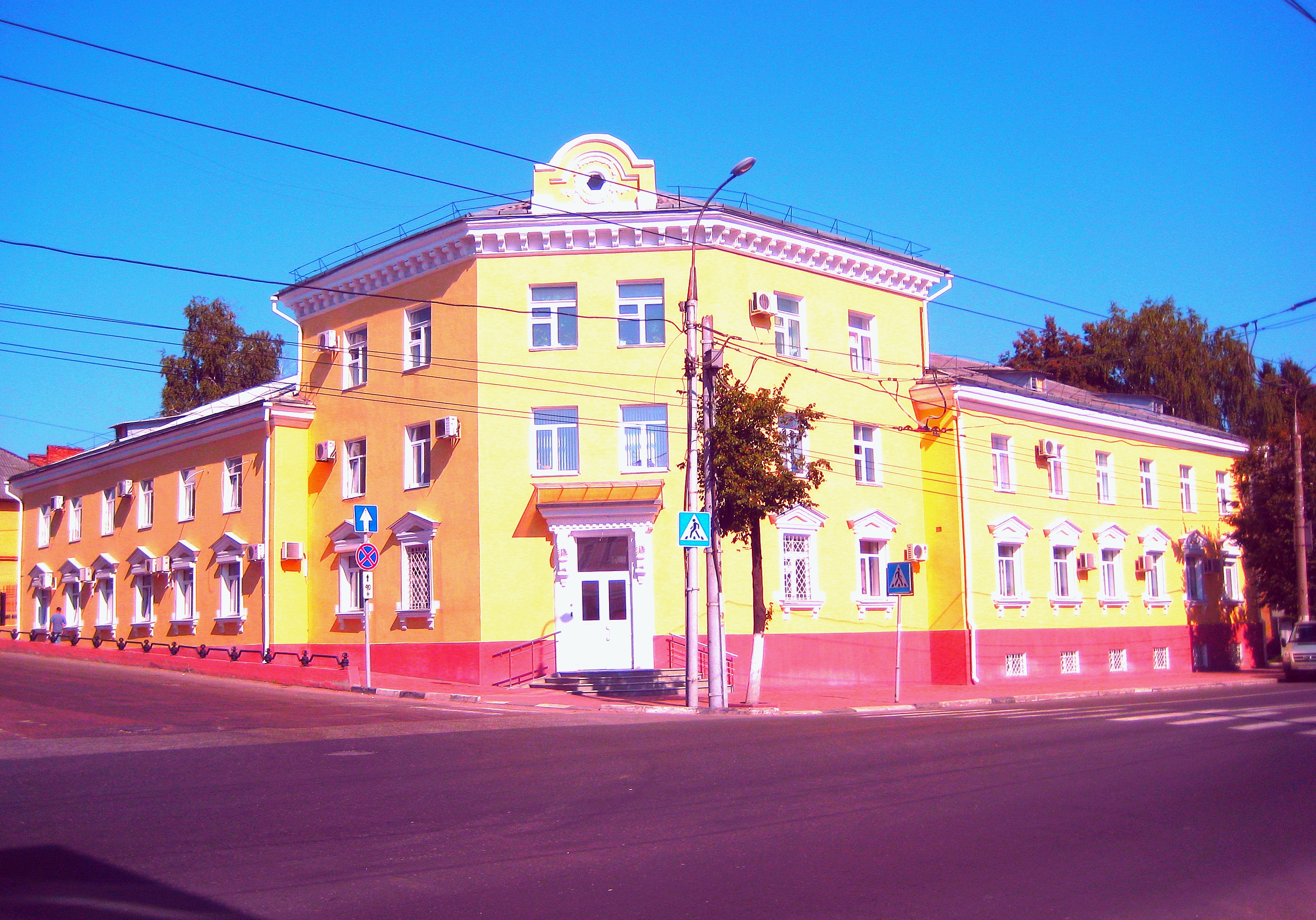 The administrative building of the trust "Bryanskstroy", 1954: Kalinin Street, 73. Sovietsky District, Bryansk, Bryansk Region.